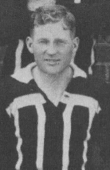 Portrait of Port Adelaide footballer Jack Darmody